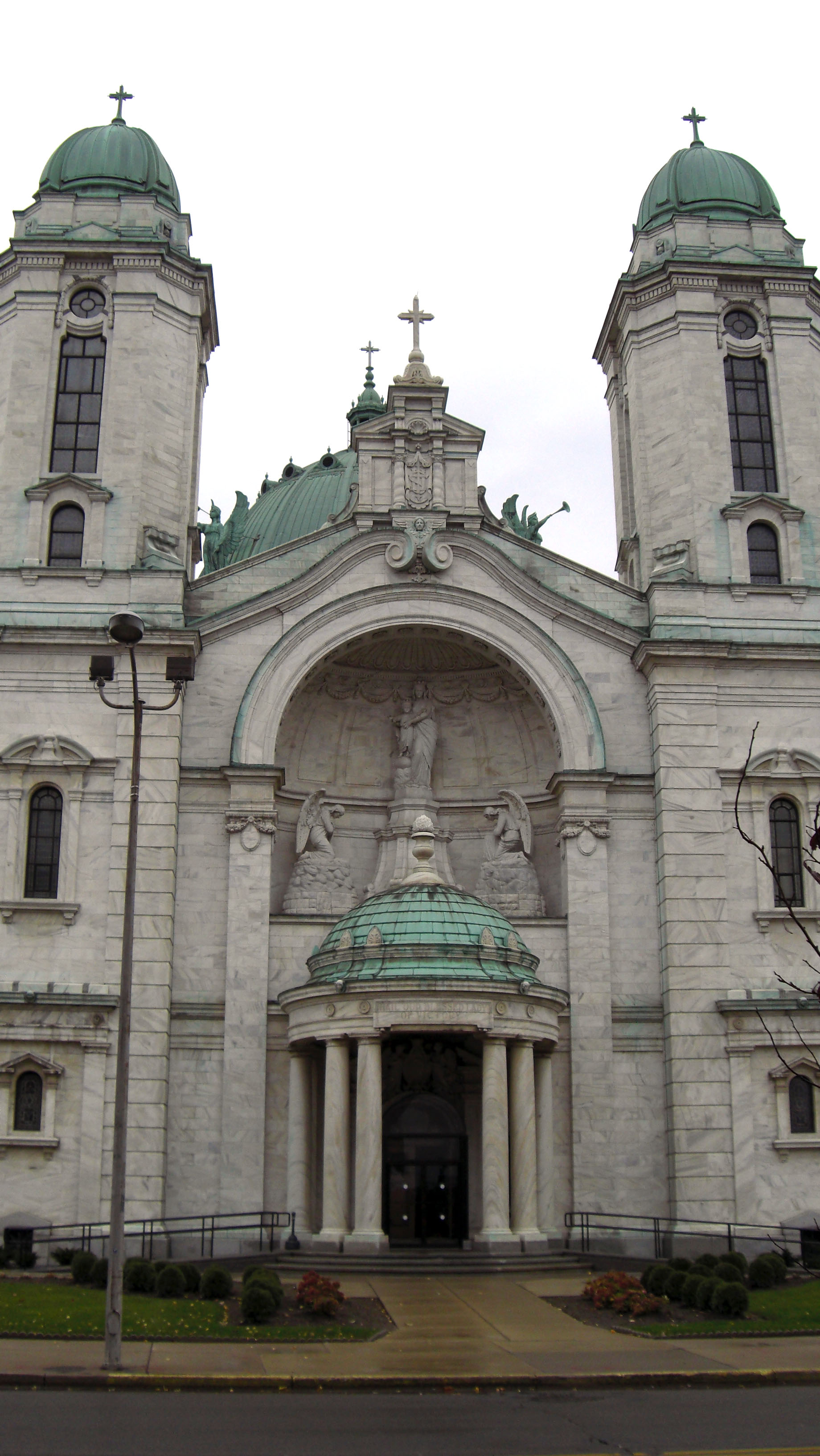 The twin towers of Our Lady of Victory Basilica in Lackawanna, New York.